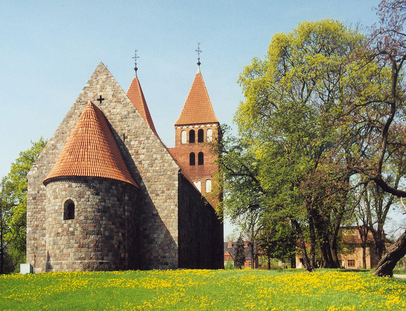 Inowrocław, St. Mary church, view from east.